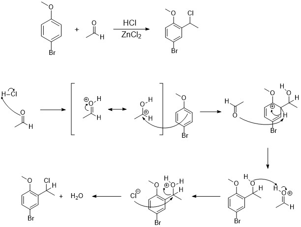 The complete step-by-step mechanism, including all formal charges of the ortho-addition to para-substituted aromatic compound via the Quelet reaction.